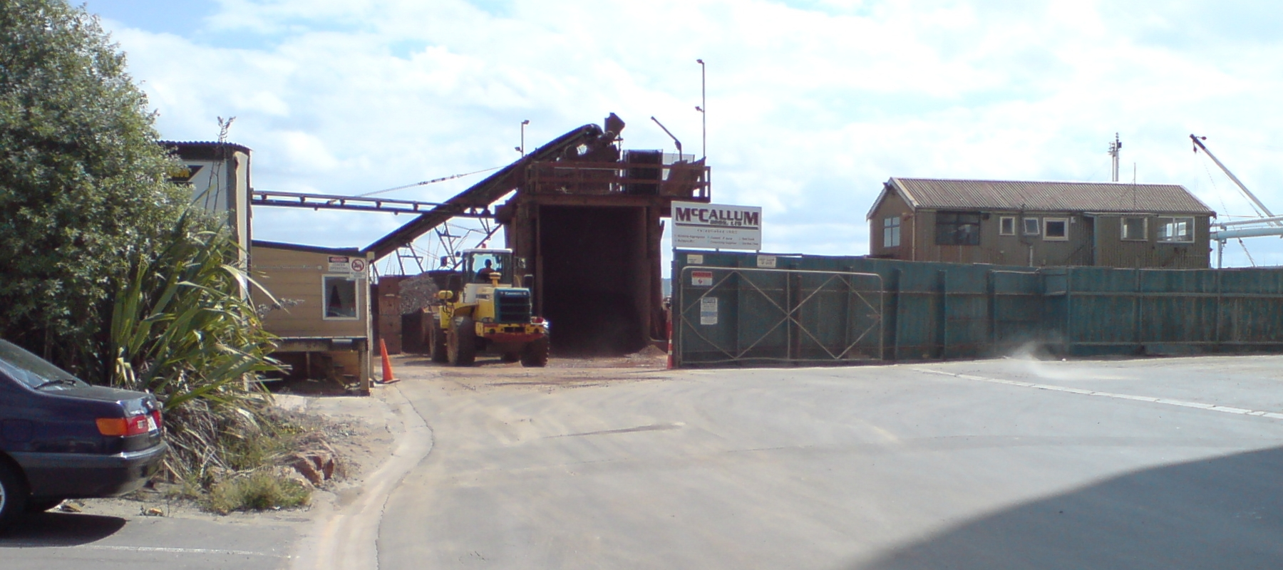 An aggregate depot of McCallum Brothers in the Western Reclamation, Auckland, New Zealand. The company mainly sells sand and other building raw materials, which are delivered to the port by barge.